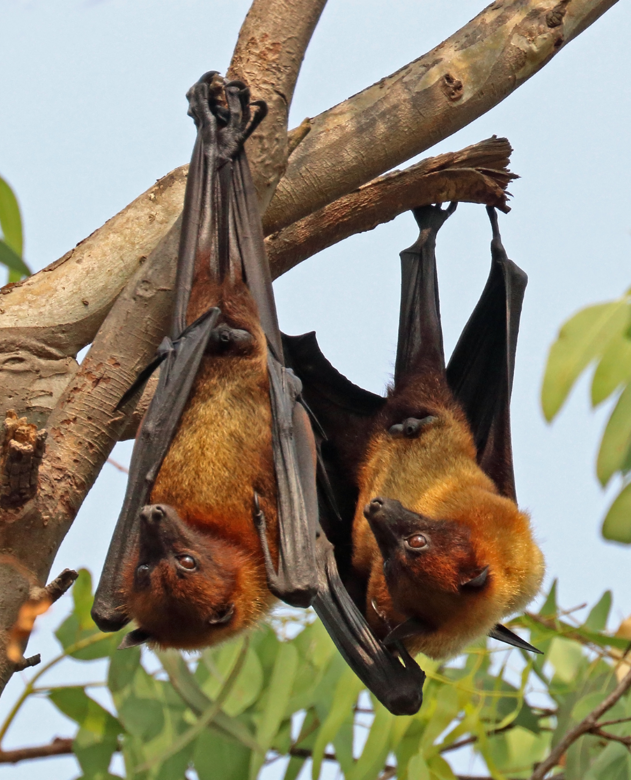 Indian flying foxes (Pteropus giganteus giganteus), Jamtra, Madhya Pradesh, India